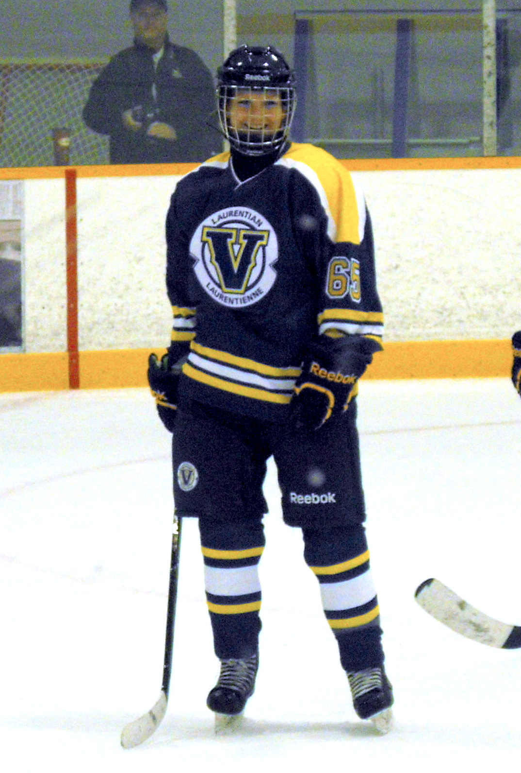 Photo taken by Devan Mighton of CIS women's hockey 2013-14.